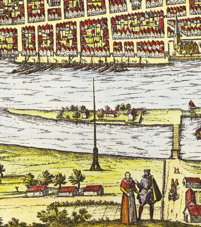 Clipping from the historical view of Bremen, Germany, by Georg Braun and Frans Hogenberg from the year 1598, showing the Papageienbaum or Papagoyenboom (“Parrot tree”), the target for the town’s marksmen in the area next to the shore of the river Weser that later became the Neustadt (“new city”) of Bremen.